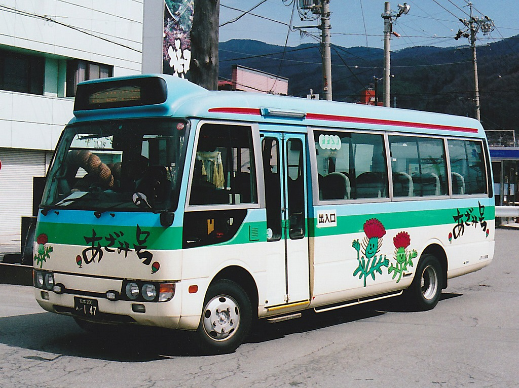 JR bus Kanto Mitsubishi Fuso Rosa (KK-BE64EG)for Shimosuwa town community bus "Azami-go".